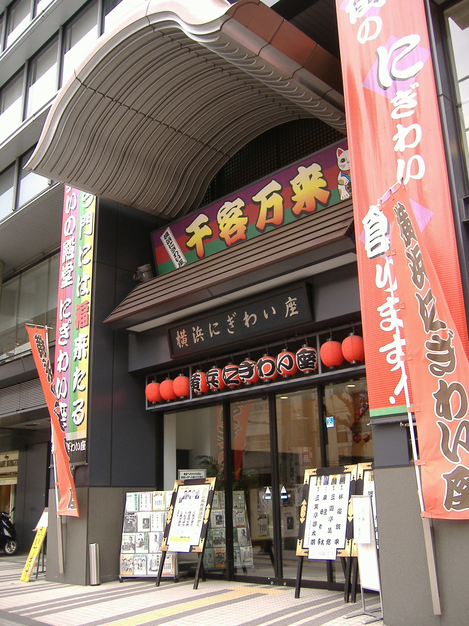 Theater"Yokohama-Nigiwaiza" (Yokohama, Japan)